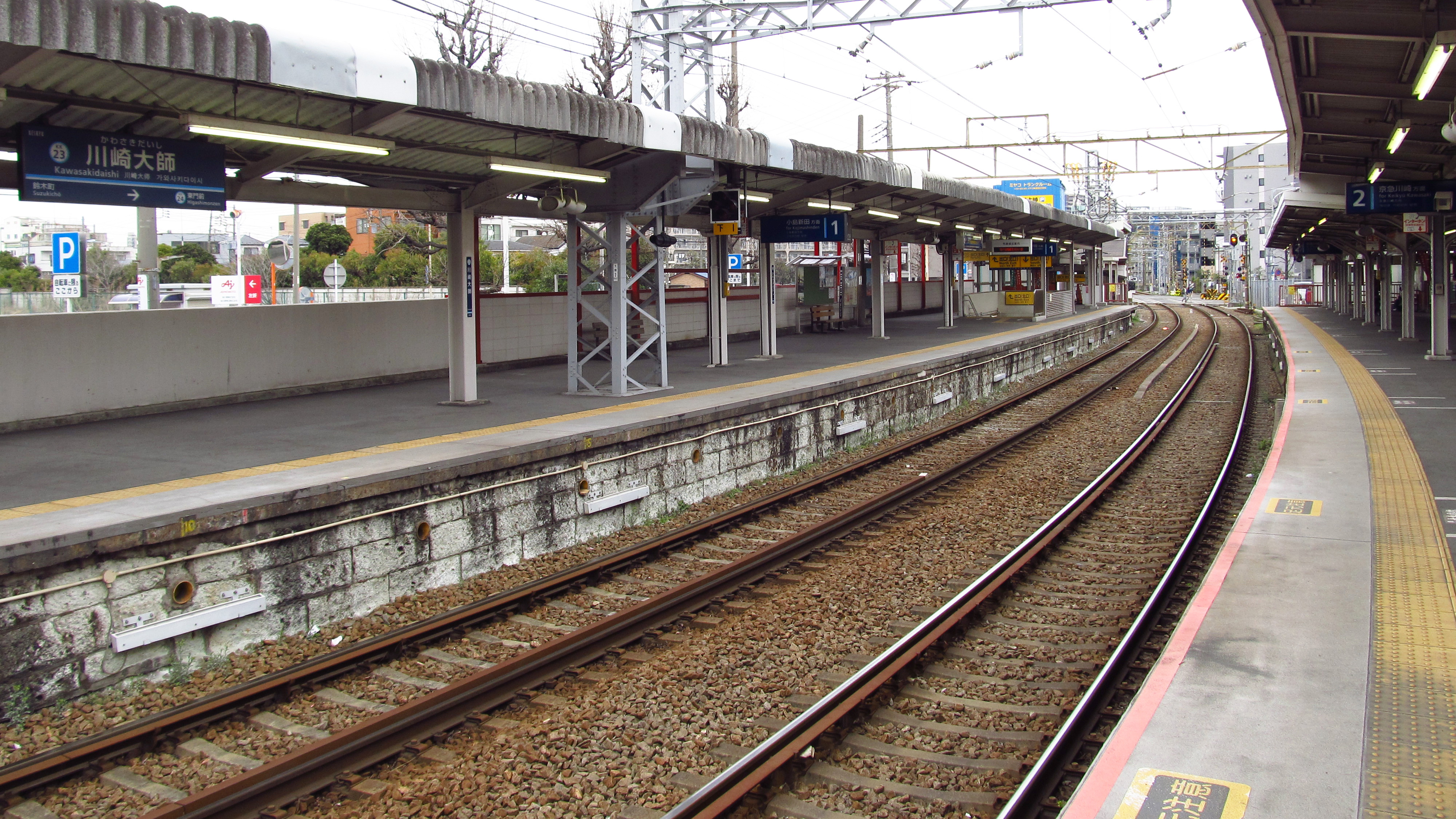 The platforms at Kawasakidaishi Station on the Keikyū Daishi Line in Kawasaki ward, Kawasaki city, Japan